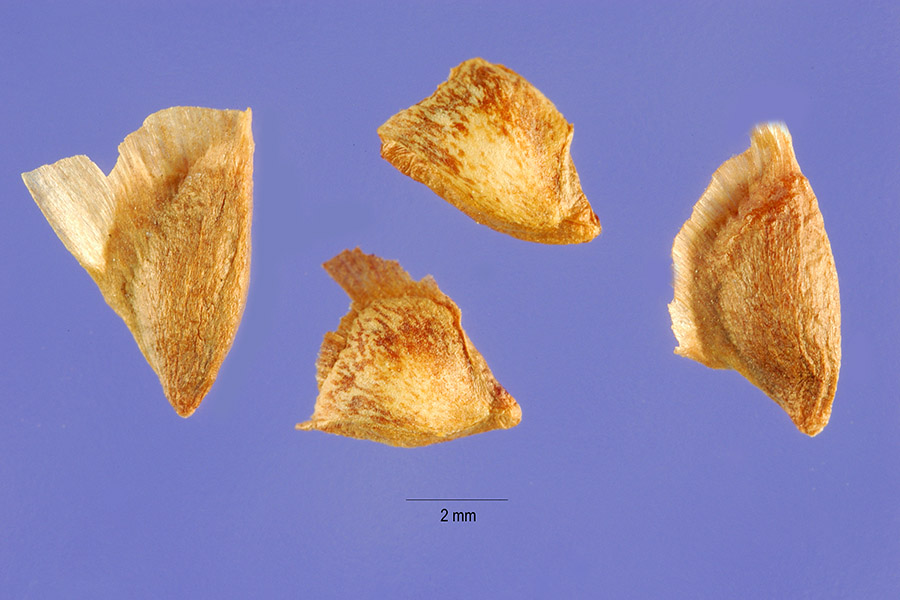 Seeds of Subalpine Larch (Larix lyallii)